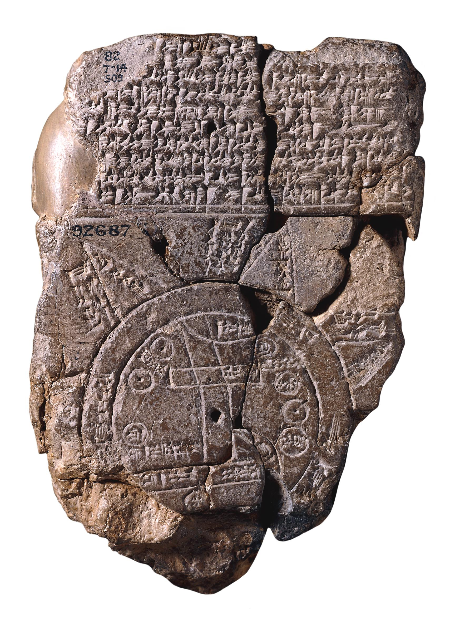 Map showing Assyria, Babylonia and Armenia.